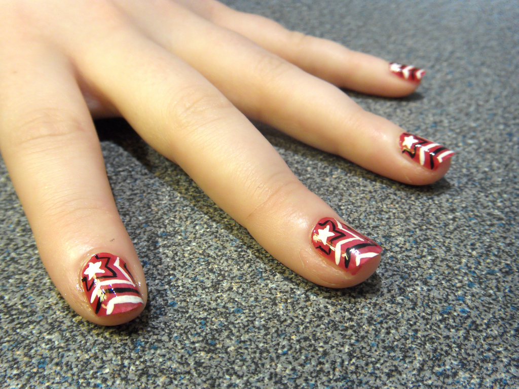 A big burst of starry nails. Check out Buzz Buzz Nail Art on Facebook